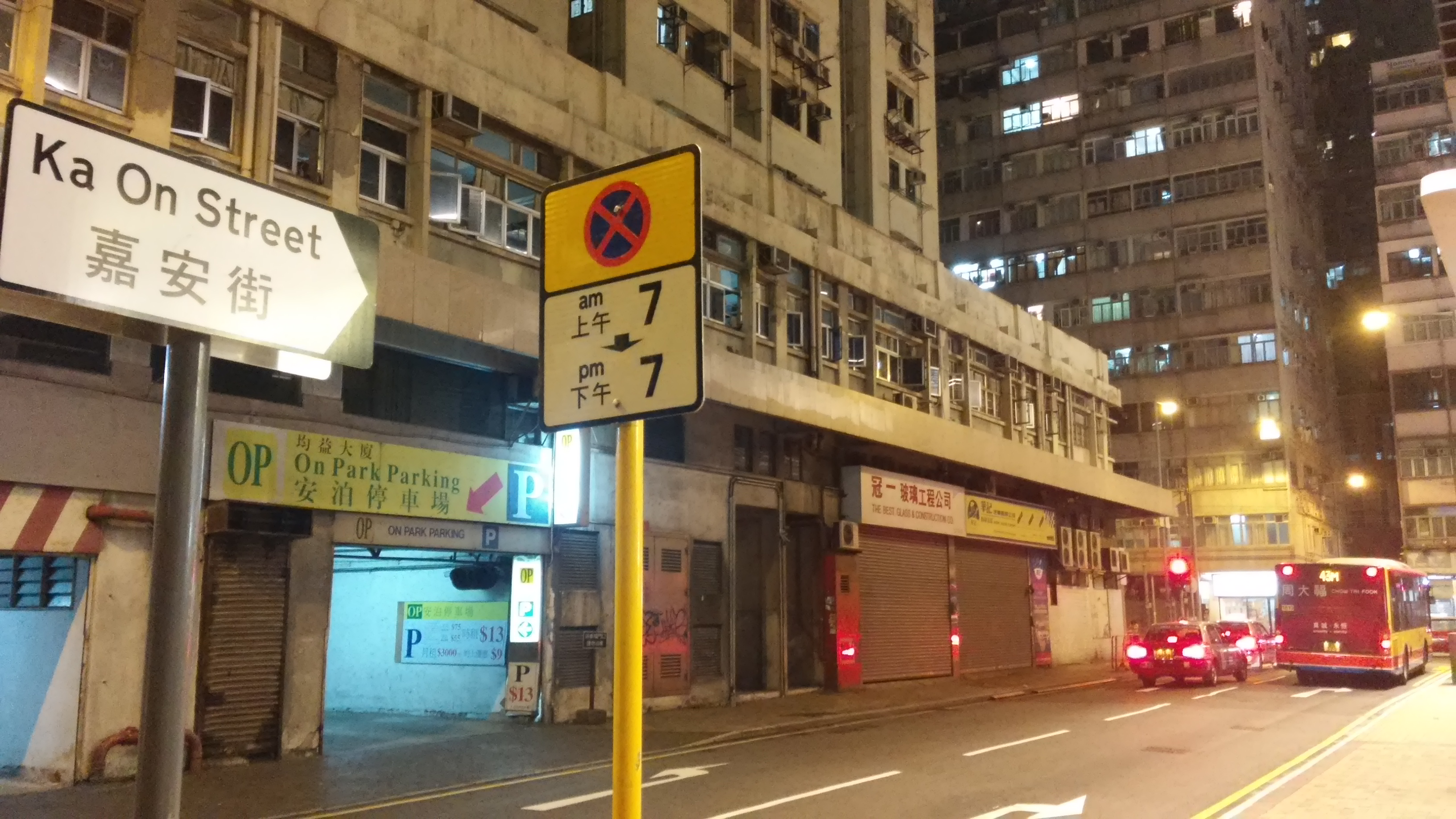 Night in Ka On Street, Sai Ying Pun, Hong Kong